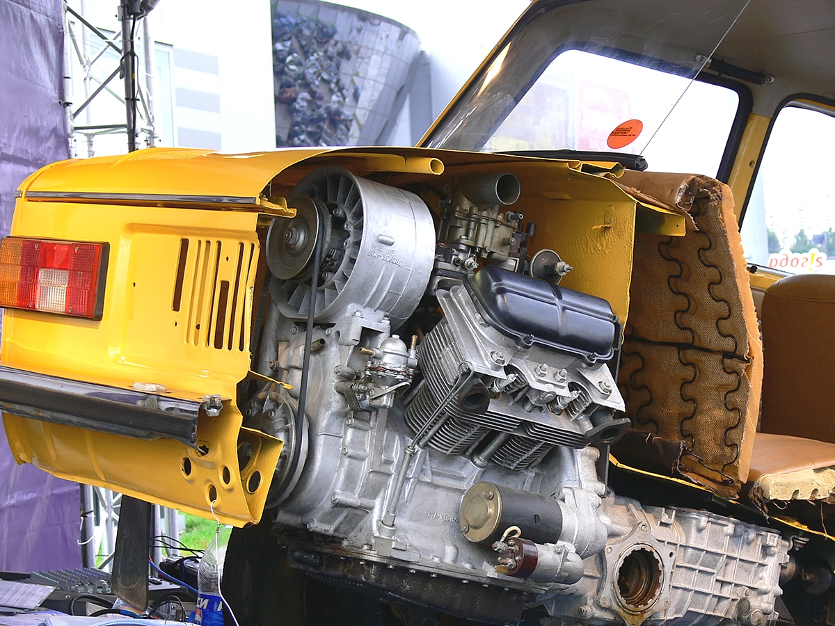 Back part.ZAZ 968M